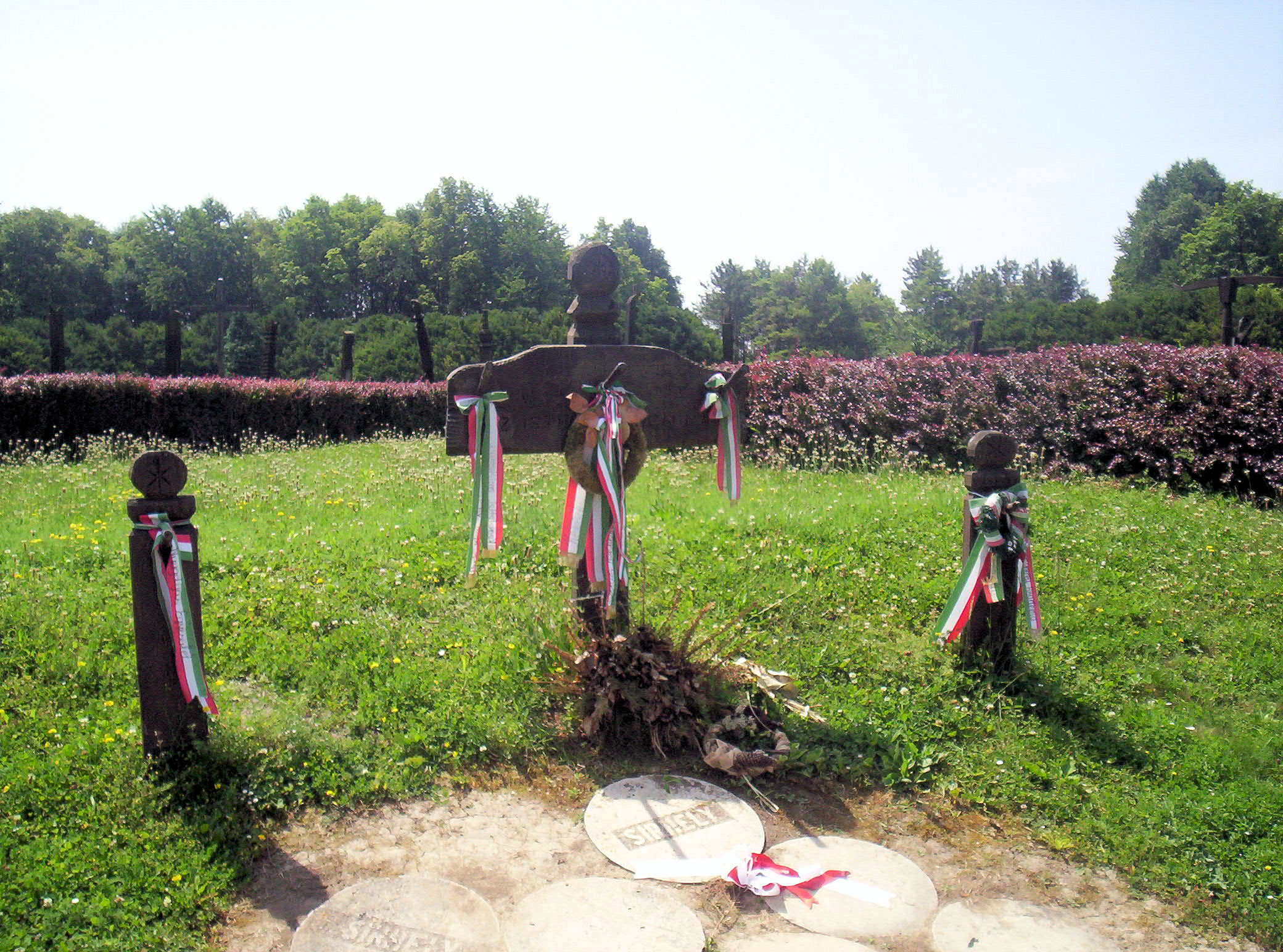 Mohács Historical Monument (Battle of Mohács, 1526) – photo taken by uploader User:Csanády in 2006.